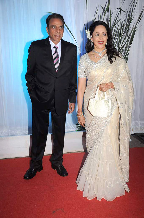 Dharmendra, Hema Malini at Esha Deol's wedding reception